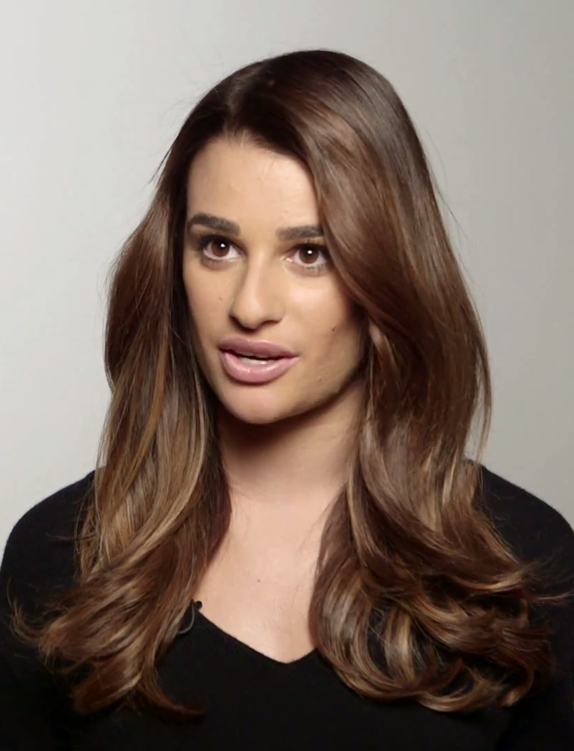 Lea Michele, L'oréal Paris spokesperson